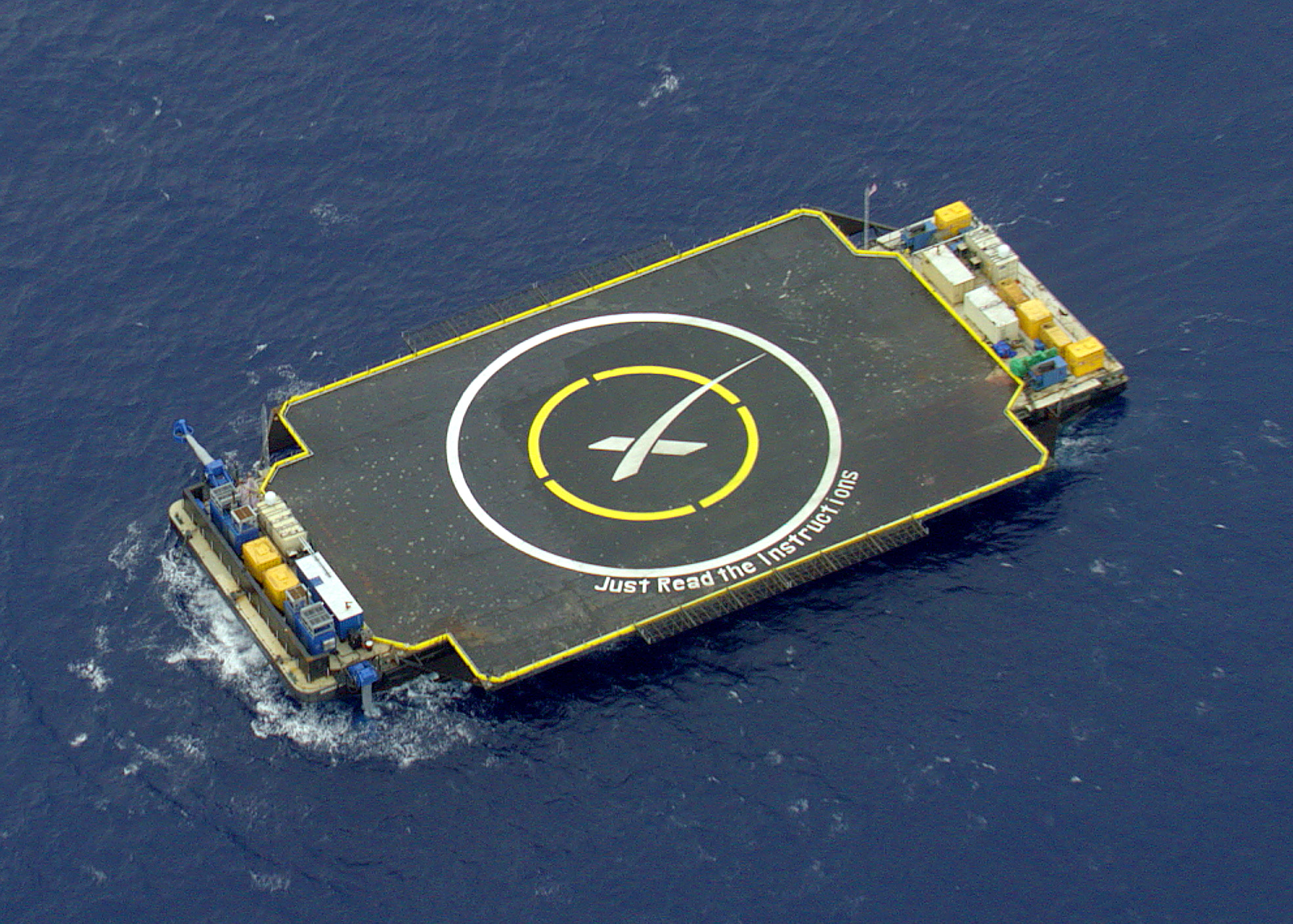 Just Read the Instructions is now on location in the Atlantic in advance of the 13 April 2015 CRS-6 launch, targeted for 4:33pm ET. Since SpaceX's last landing attempt, the drone ship has been upgraded to tolerate more powerful ocean swells, however weather at the landing site is looking significantly better this time. After Dragon and Falcon 9's second stage are on their way to orbit, the first stage will execute a controlled reentry through Earth's atmosphere, targeting touchdown on an autonomous spaceport drone ship approximately nine minutes after launch.